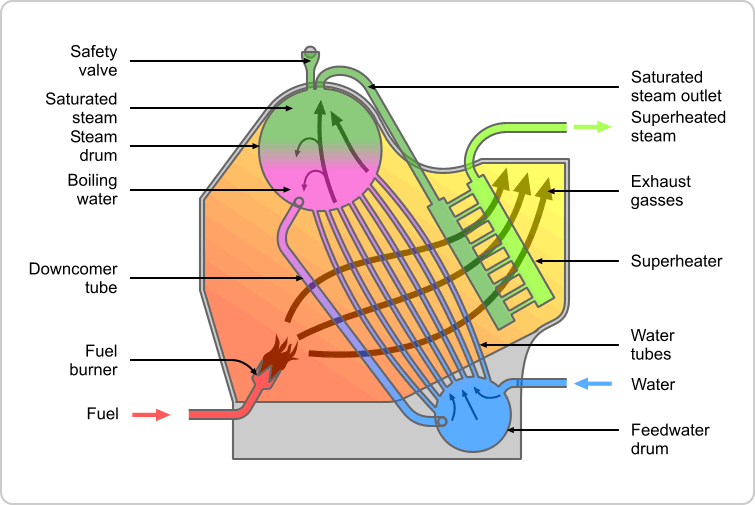 Schematic diagram of a water-tube marine-type boiler, drawn using XaraXtreme by Emoscopes 14:26, 10 February 2006 (UTC) Italian version